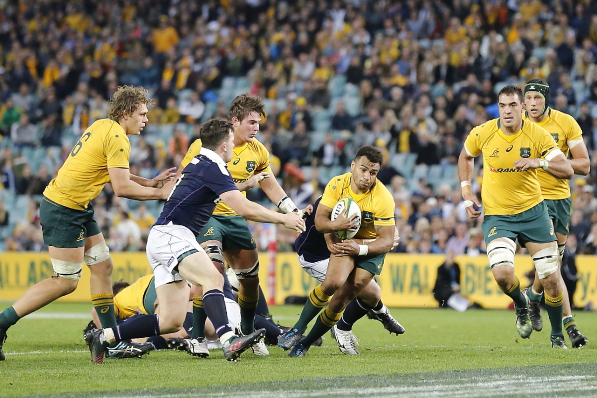 2017.06.17.16.55.22-Will Genia carry-0003 The 2017 mid-year rugby union international, 17 June 2017, Australia vs Scotland at Allianz Stadium, Sydney